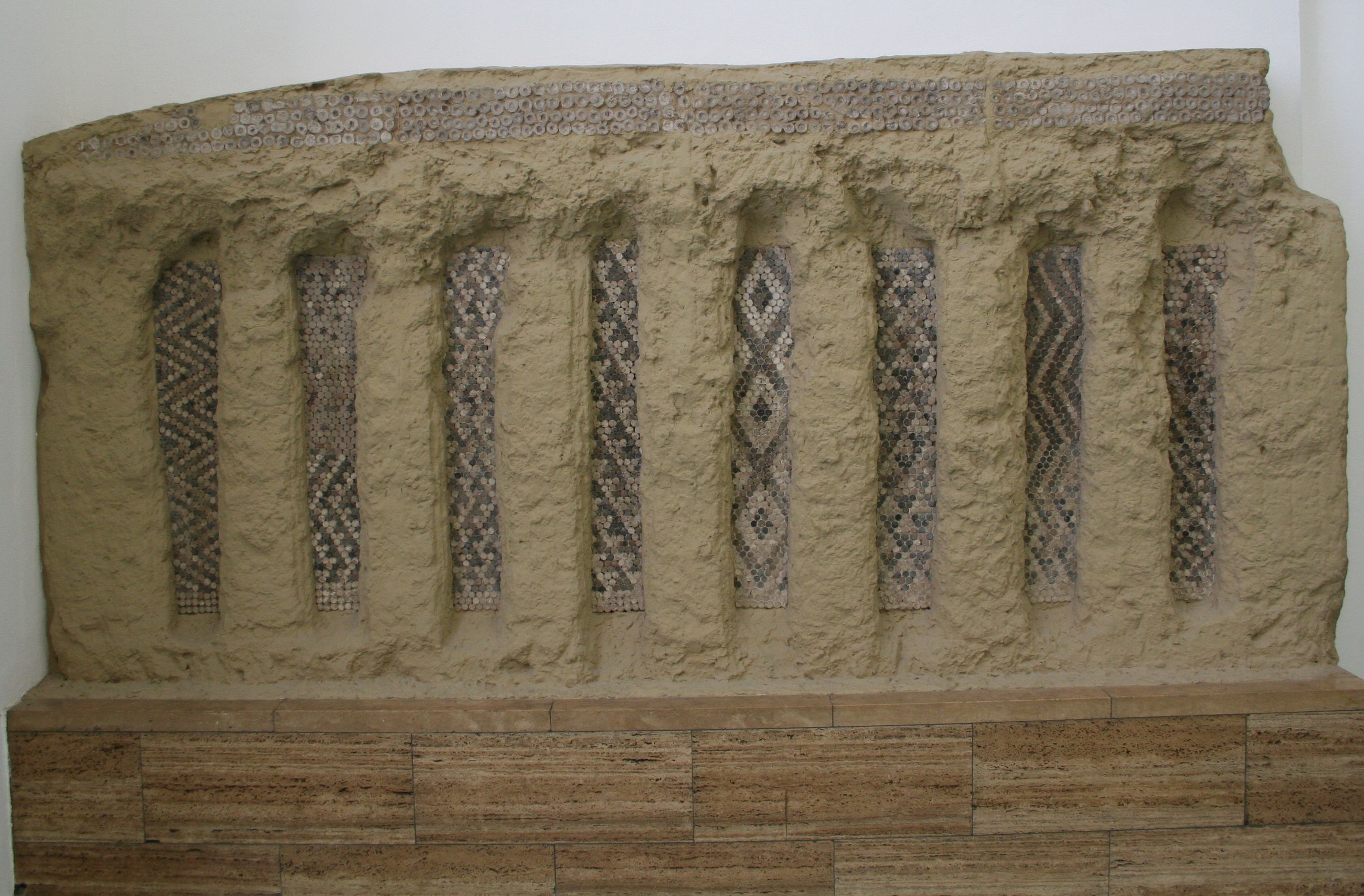 Vorderasiatisches Museum (Near East Museum), Berlin